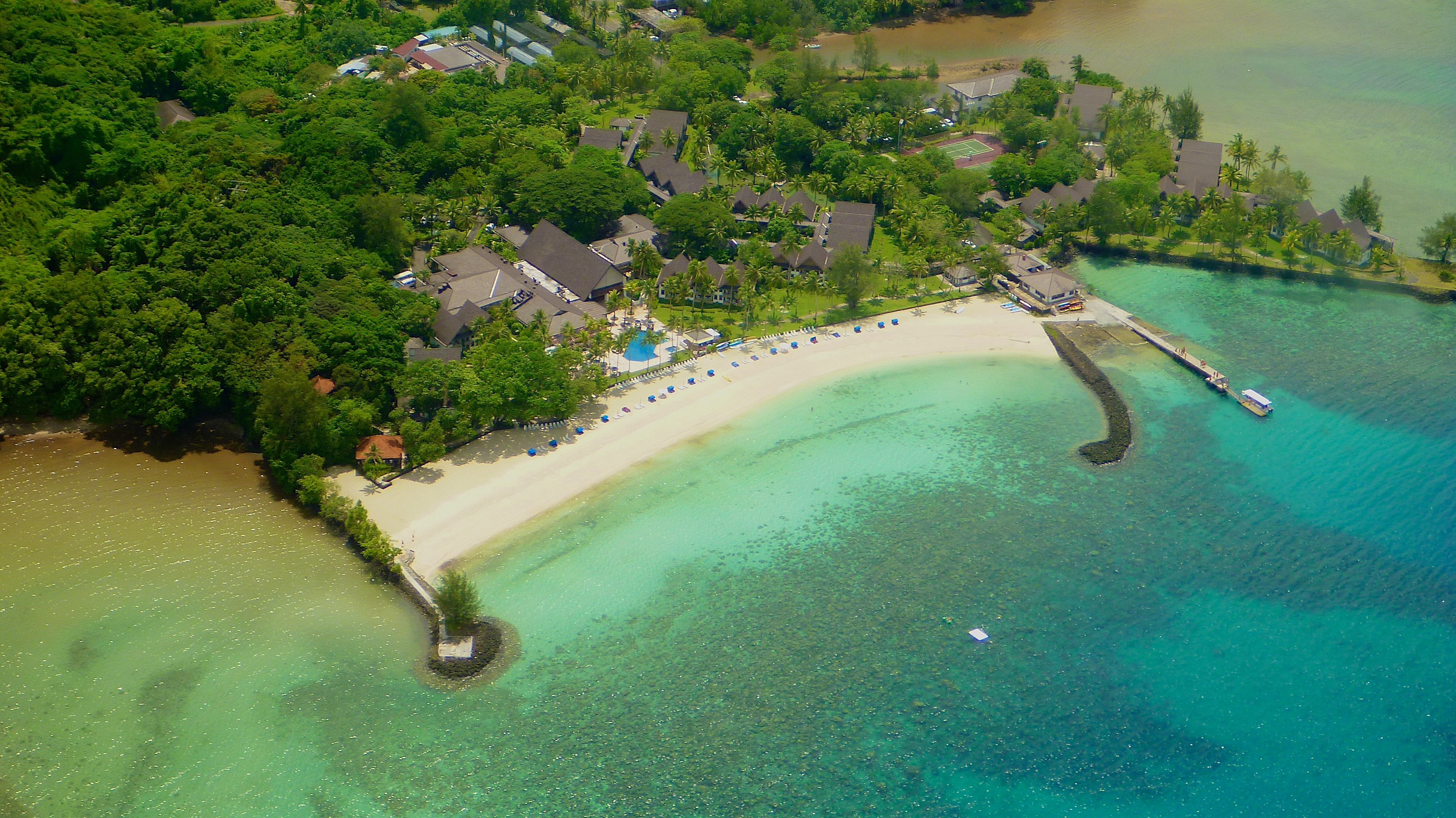 Palau Pacific Resort, Koror. The house behind the tennis court is the Embassy of Japan in Palau.